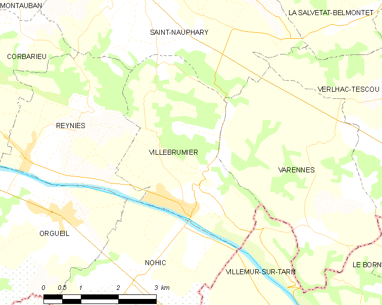 Map of French municipality Villebrumier